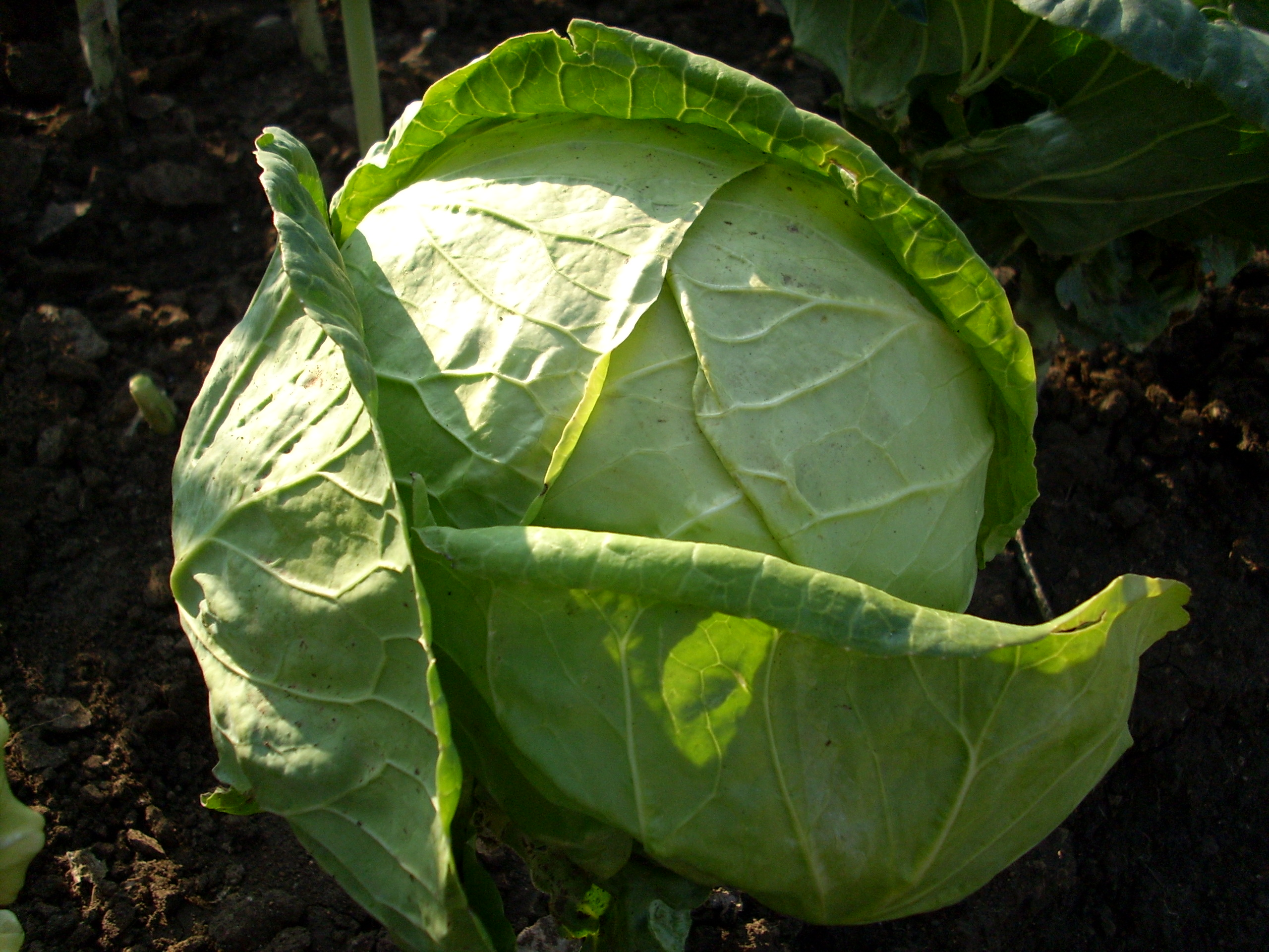 Cabbage from Bulgaria